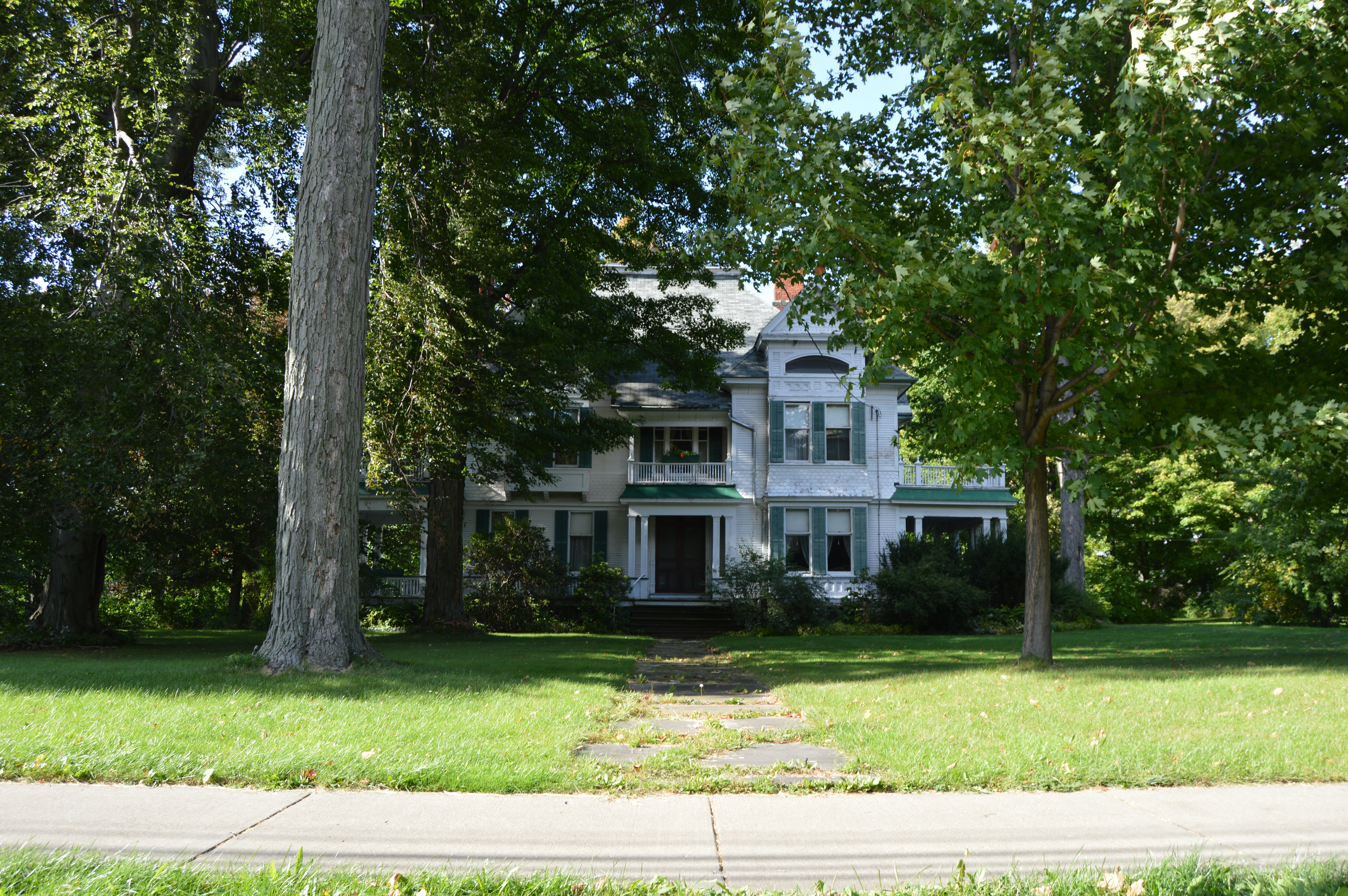 Front of the farmhouse at the Reuben Gridley Wright Farm Complex, located at 233 E. Main Street (U.S. Route 20) in Westfield, New York, United States. Built in 1883, it is listed on the National Register of Historic Places.